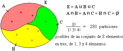 Made by Romero Schmidtke